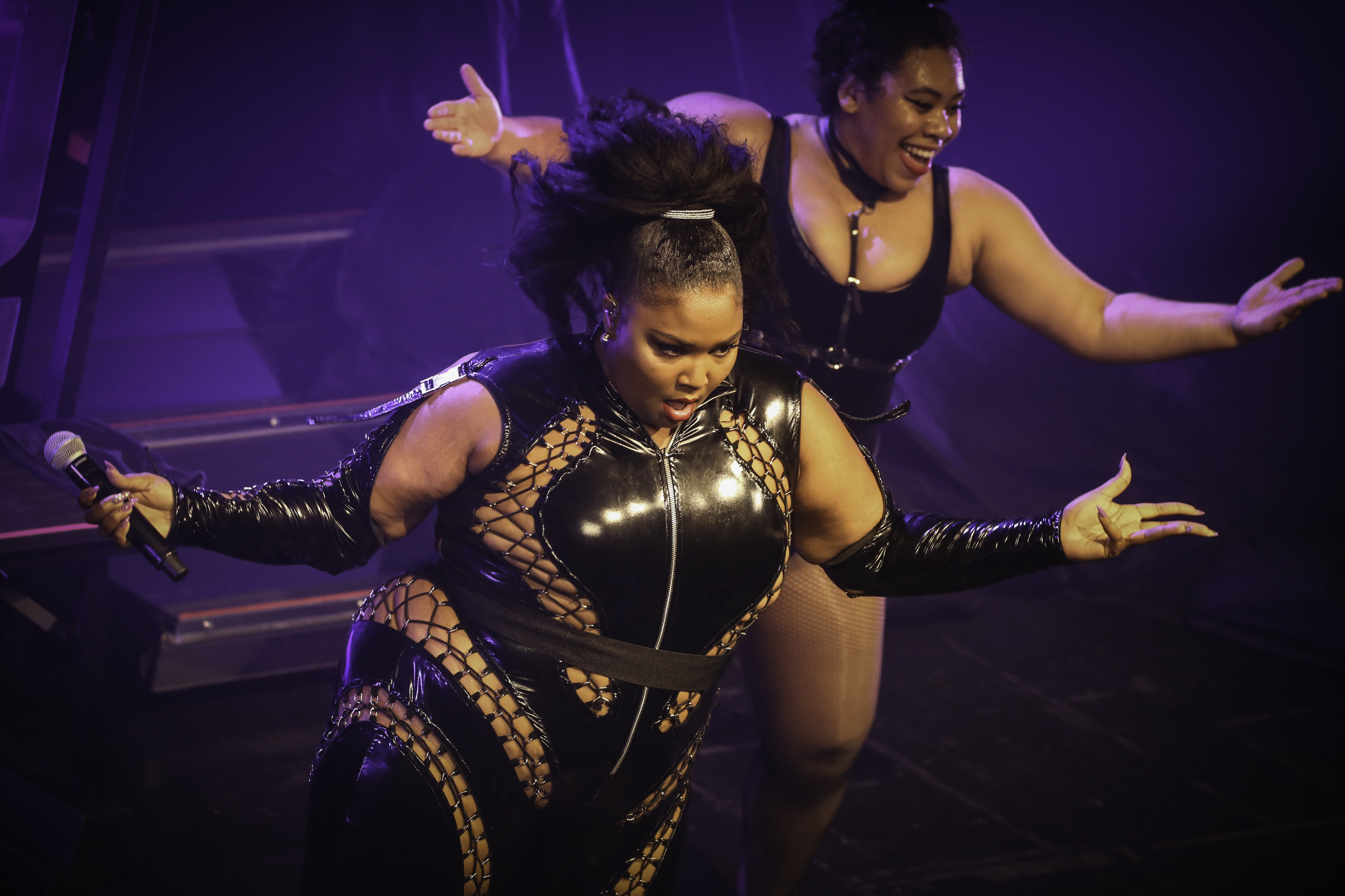 Lizzo - Palace Theatre - St. Paul